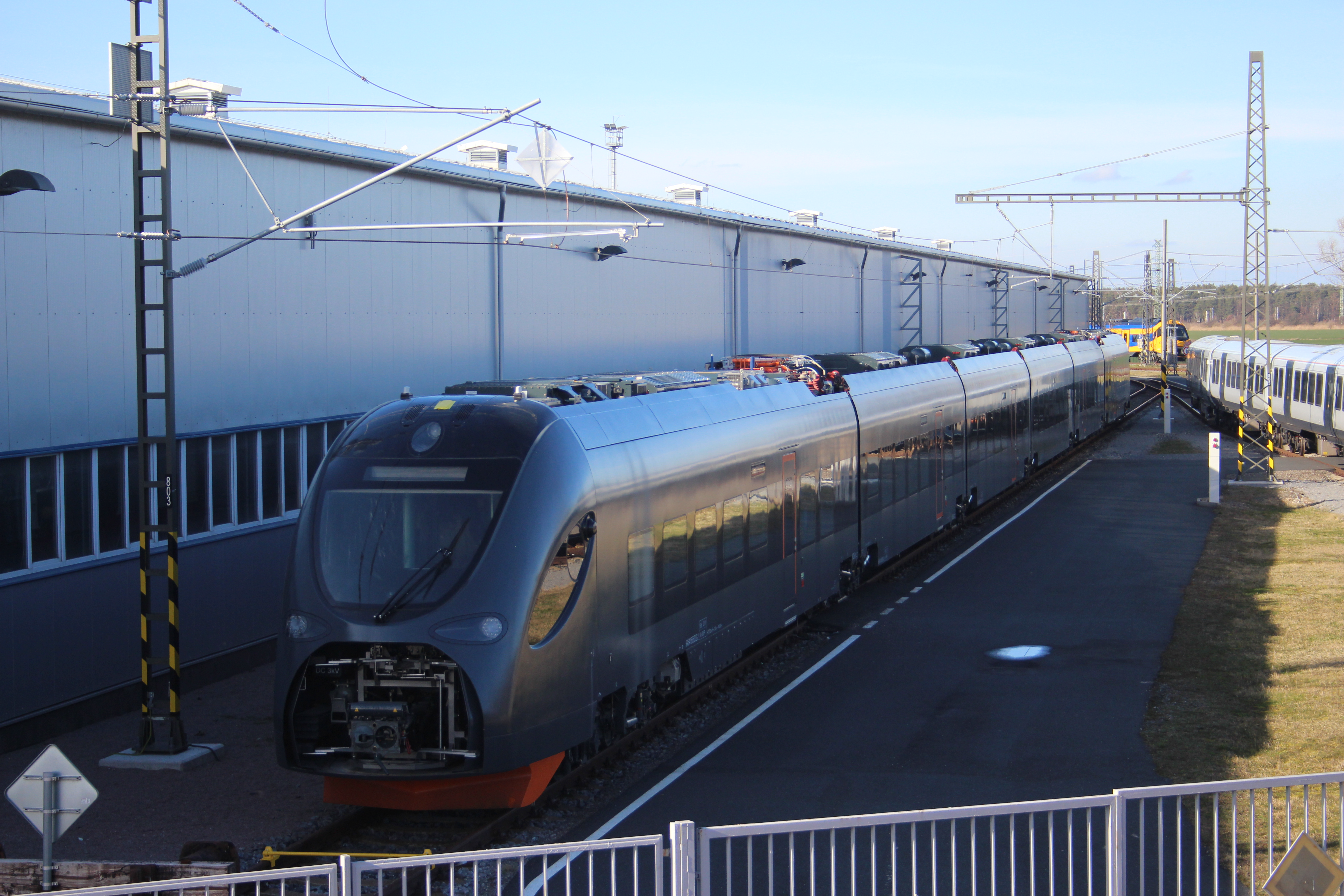 A brand-new CRRC Sirius EMU for Leo Express at Velim Railway Test Circuit, in the sidings awaiting further testing. This is one of three CRRC units for Leo Express, two of which were at the Velim Railway Test Circuit, the other was branded.